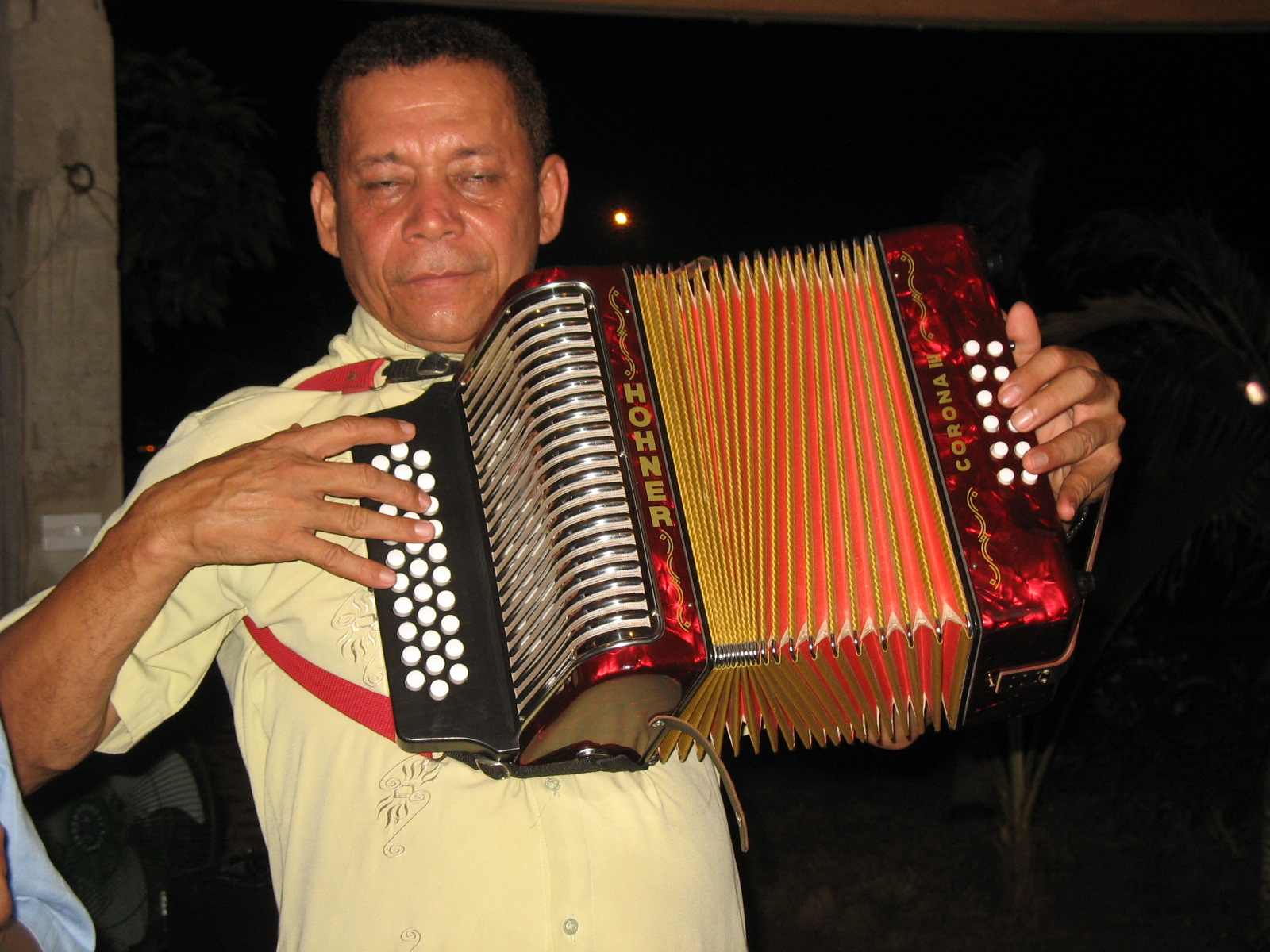 Acordeonero